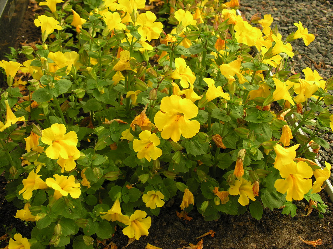 Mimulus guttatus flawer. Fam. Phrymaceae